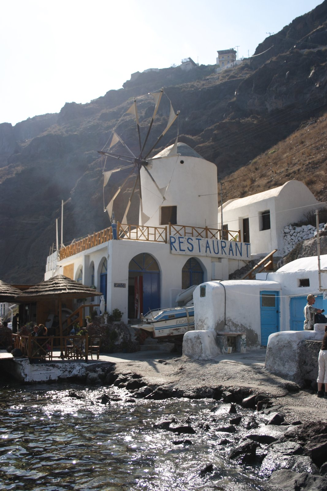 Thirasia island